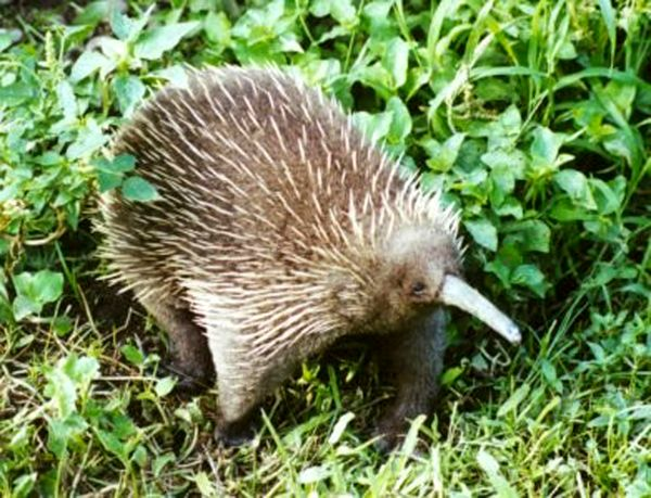 The echidna is one of a handful of mammals to give birth to its offspring by laying eggs.